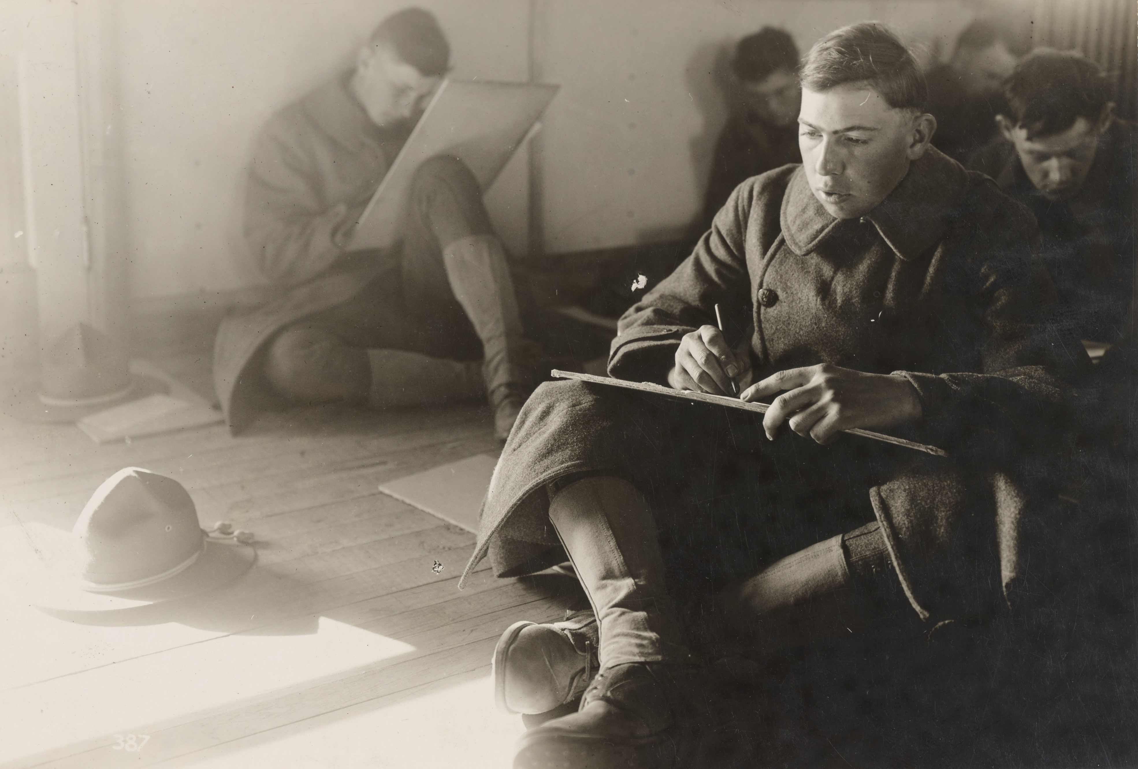 This is an image from the U.S. National Archives of soldiers taking a predecessor of the Army Alpha (probably Examination a) at Camp Lee, Virginia in November 1917. Examination a was revised in January 1918 to create the Army Alpha, and latter replaced Examination a completely within a few months.